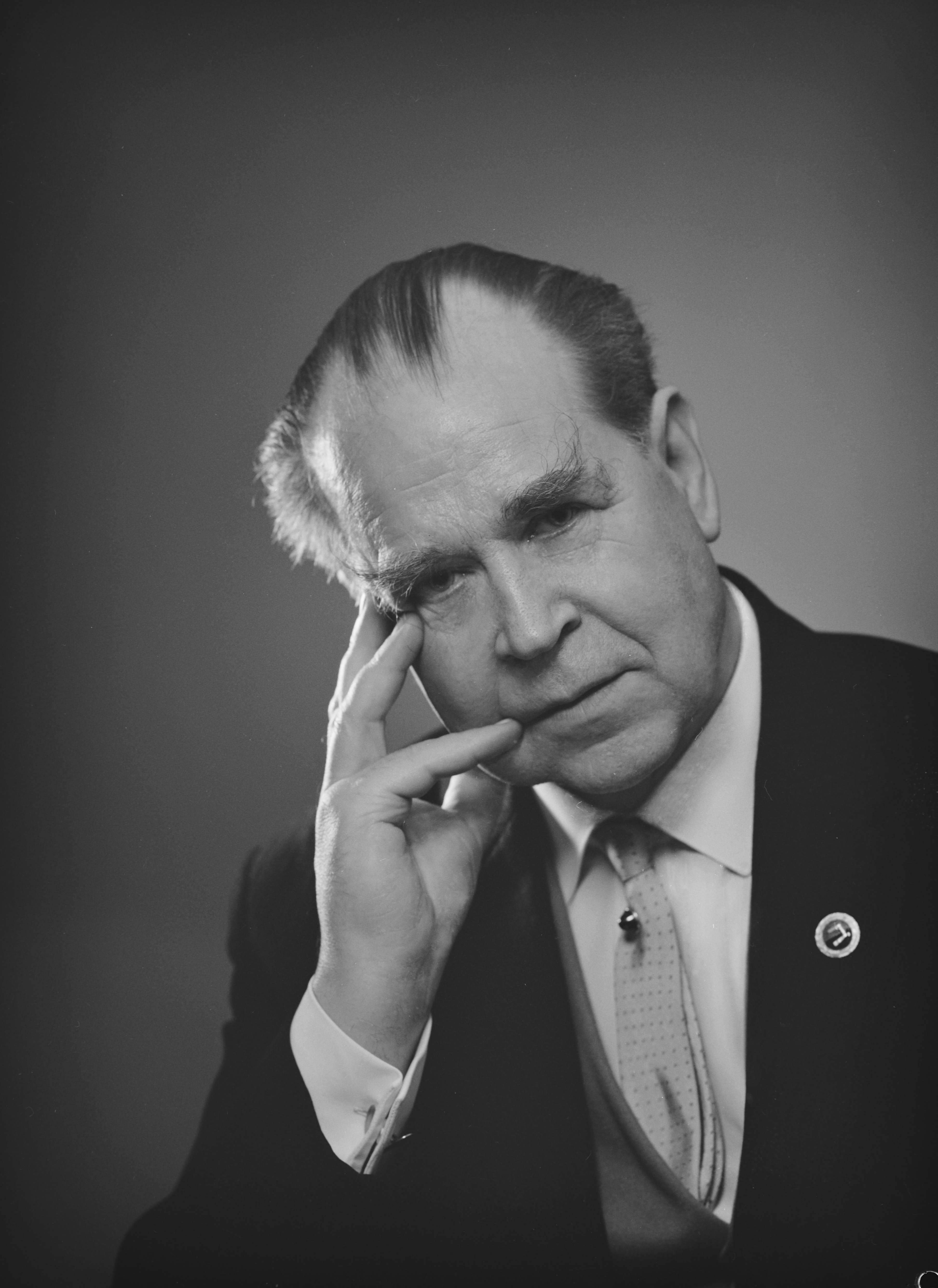 Photograph of the Finnish architect Aulis Kalma (1899–1975).